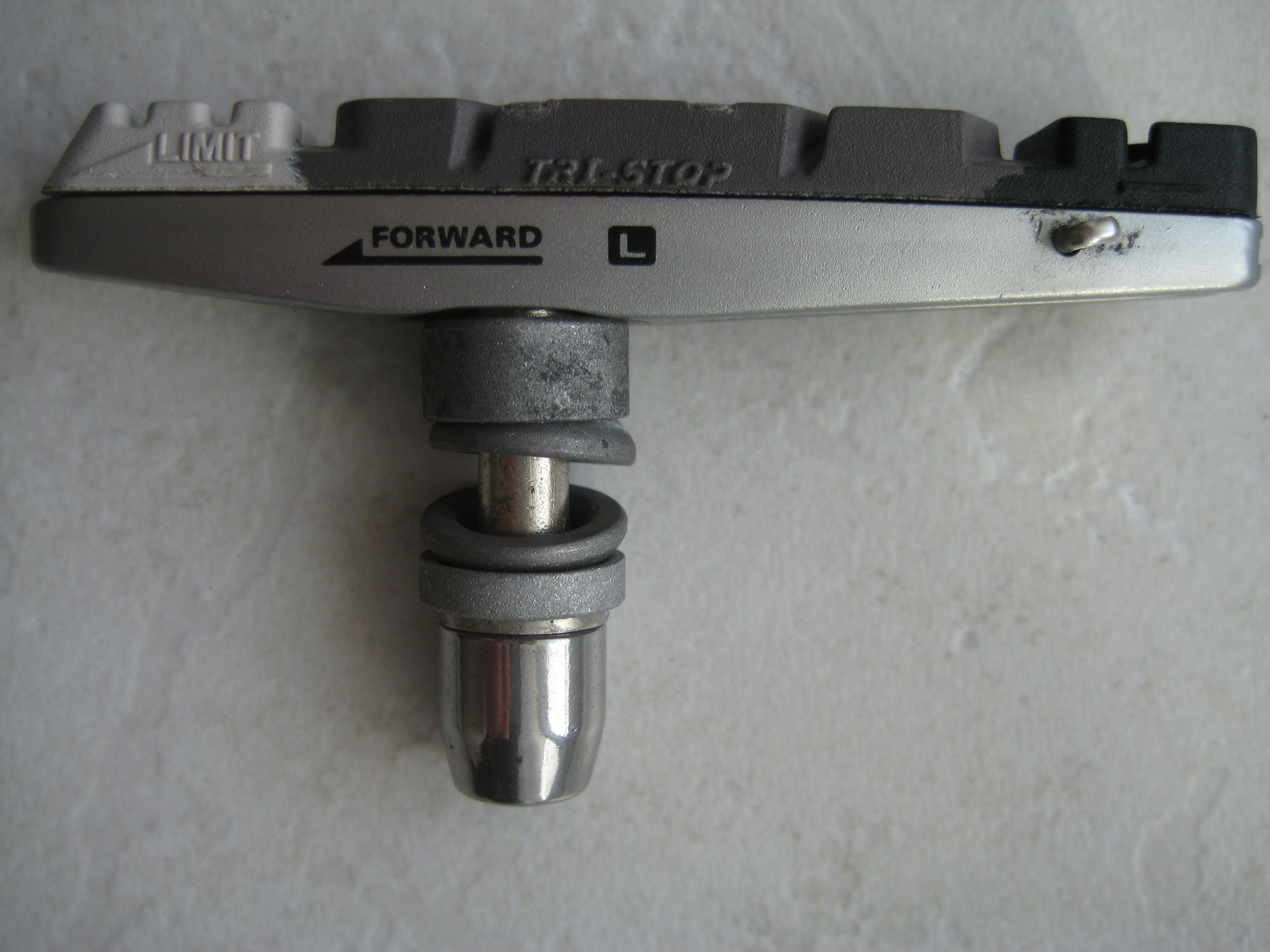 v-brake pad with its metallic support